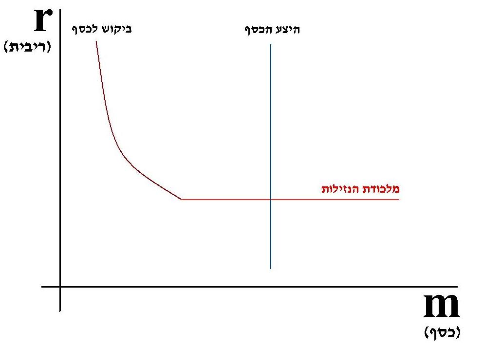 Liquidity trap on Money market.